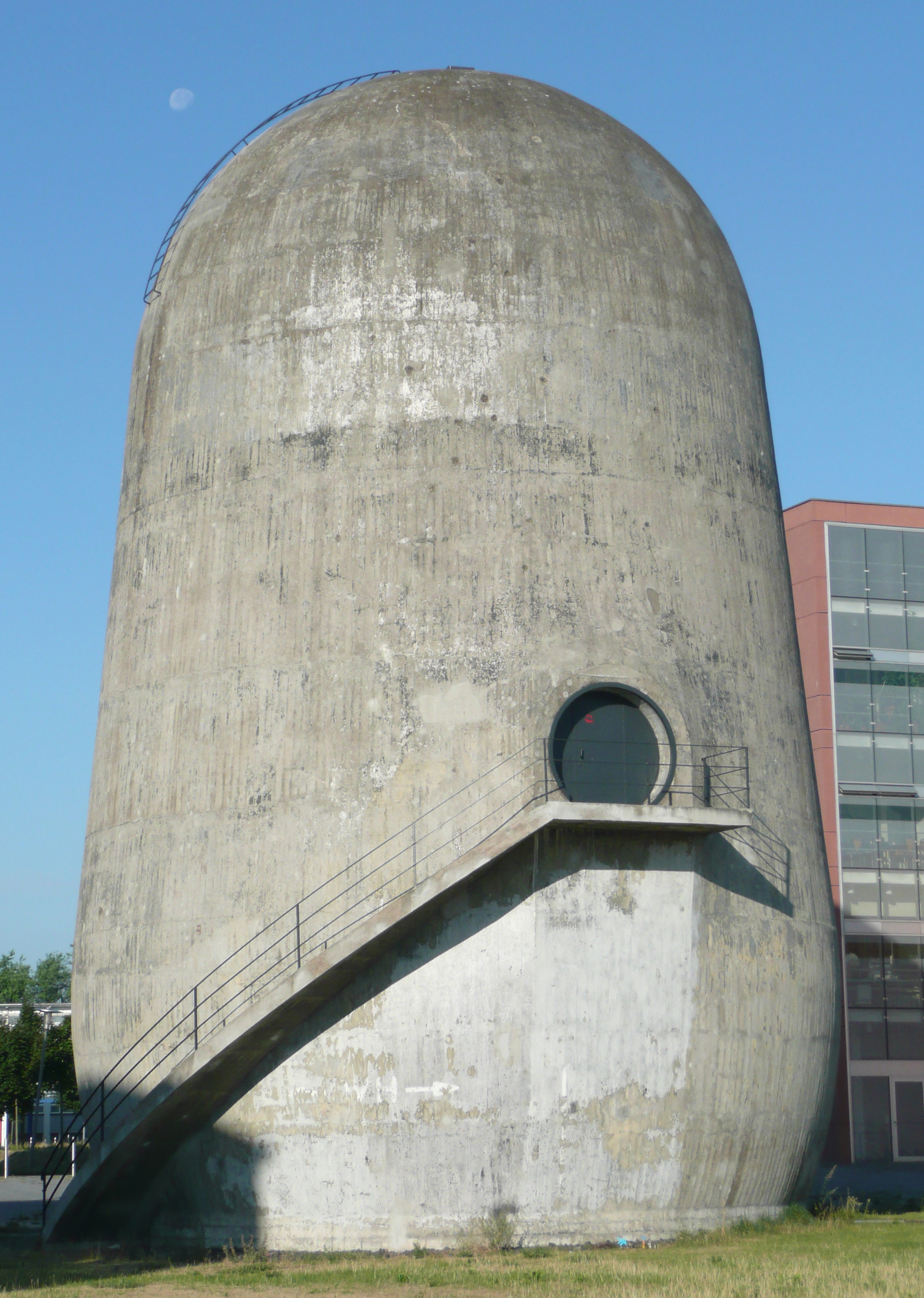 The technical monument "Trudelturm" in the Aerodynamic park - part of the Science and Technology Park Adlershof in Berlin.